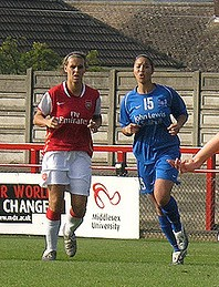 Bclfc vs arsenal in the FA league cup, season 2006/07. For more details go to